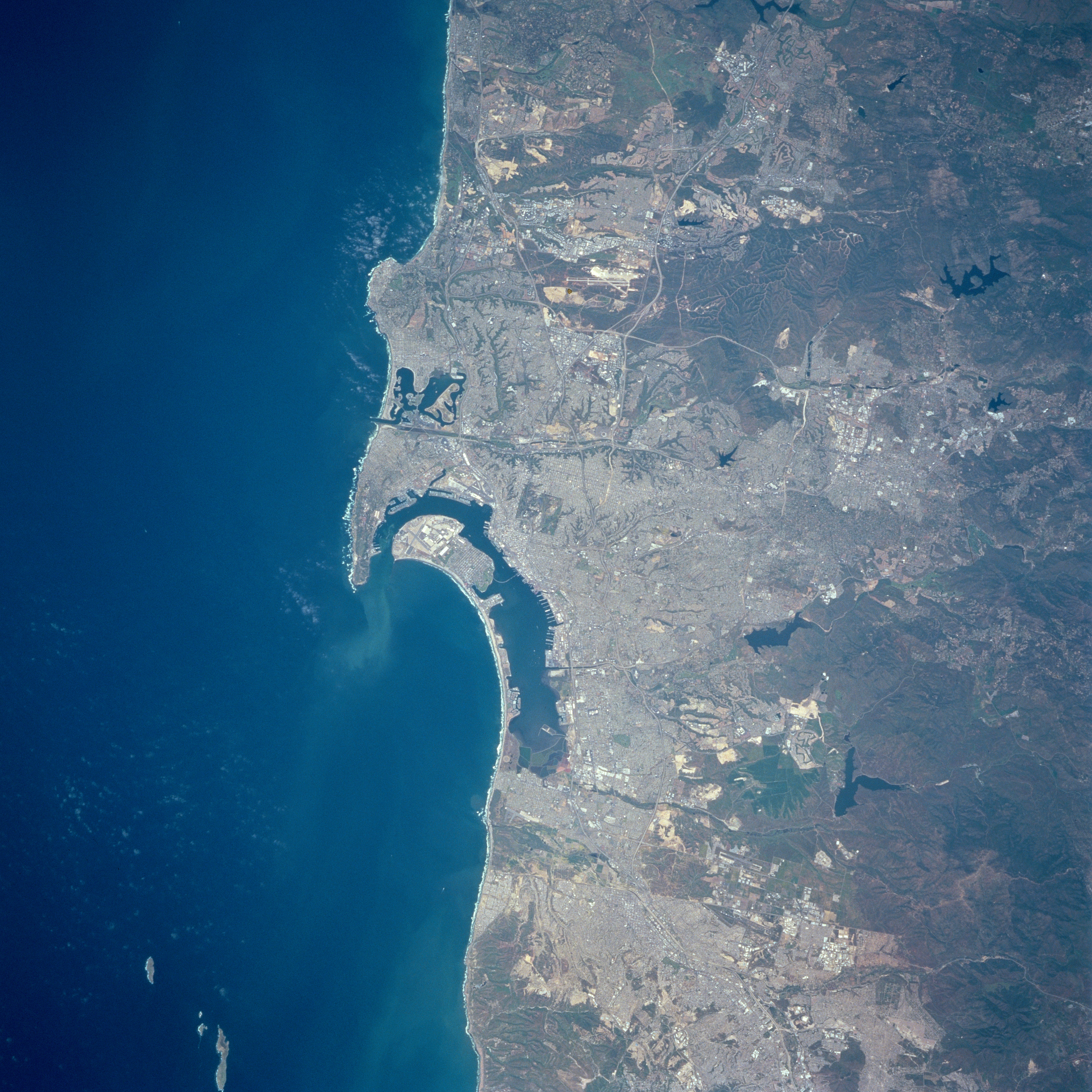 Three major features dominate this image of the southwest coast of California: the deep blue (dark) waters of the Pacific Ocean; the highly reflective, man-made urban and suburban environment along the coast; and the rugged, natural terrain of low mountain foothills of the Peninsular Ranges east of the urban development. The greater metropolitan area of San Diego (CA) and Tijuana (Mexico) with a combined population of approximately four million people can be identified as the lighter colored, highly reflective area on the image. Several types of infrastructure associated with the developed urban area are visible on this small-scale image. Reservoirs, including the lower Otay, Sweetwater, and St. Vicente Reservoirs, are the irregularly shaped, dark blue areas. The light-colored linear runways of Miramar Naval Air Station lie north of the densely populated area of San Diego. Interstate Highways 5 and 15 (light colored, linear features) radiate northward away from San Diego. The small square-shaped features along the edges of the bay are the many piers that jut into San Diego Bay. Mission Bay Harbor and Marina (dark area) is found along the coast north of the entrance to San Diego Bay.